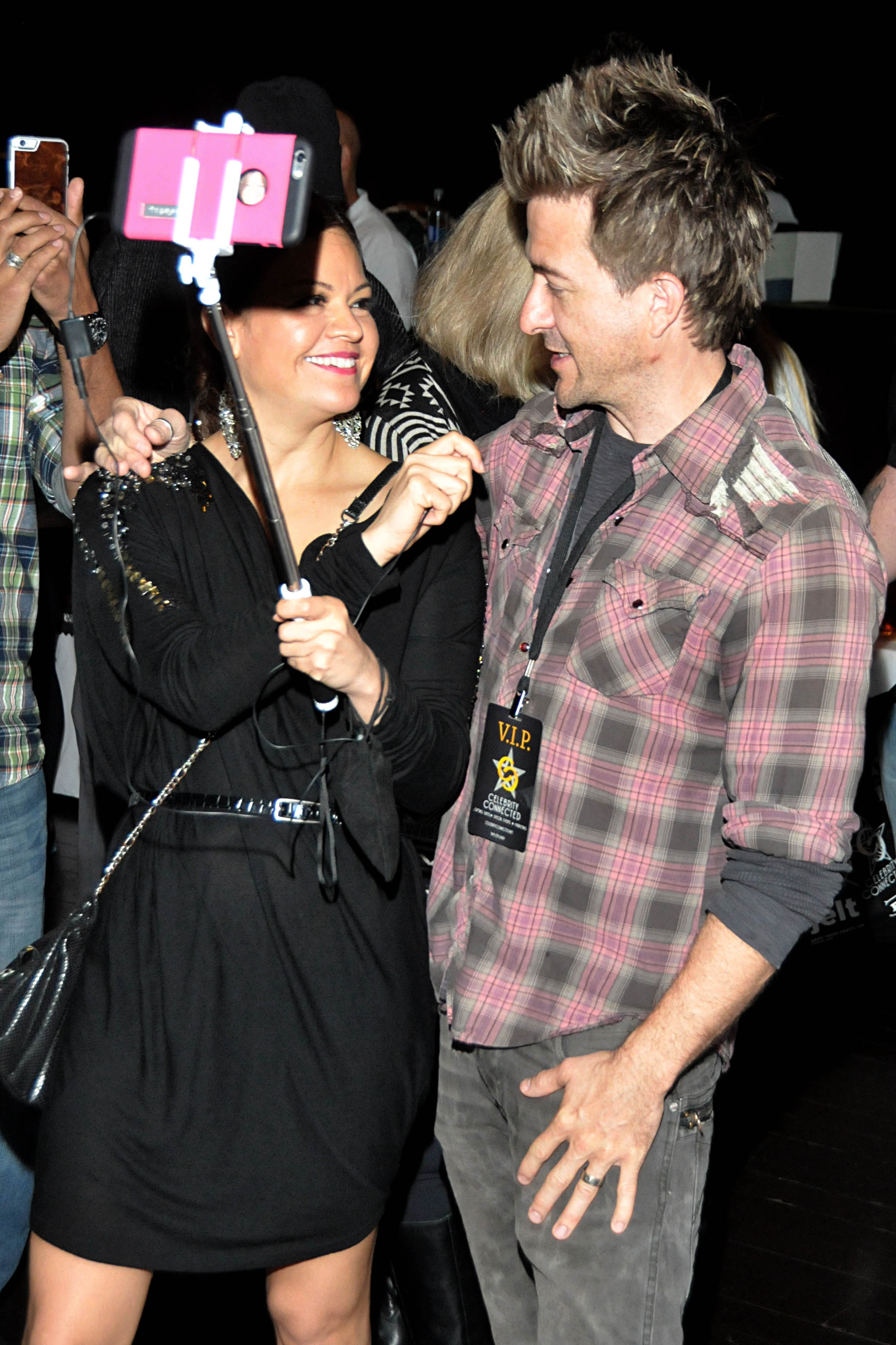 Media Reporter using a Selfie Stick for Interviews instead of a Videographer - Photo by Glenn Francis of